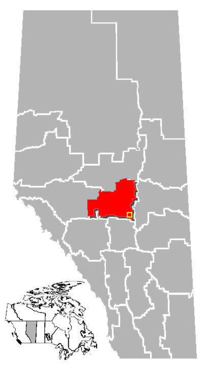 Location of Wetaskiwin, Census Division No. 11, Albera